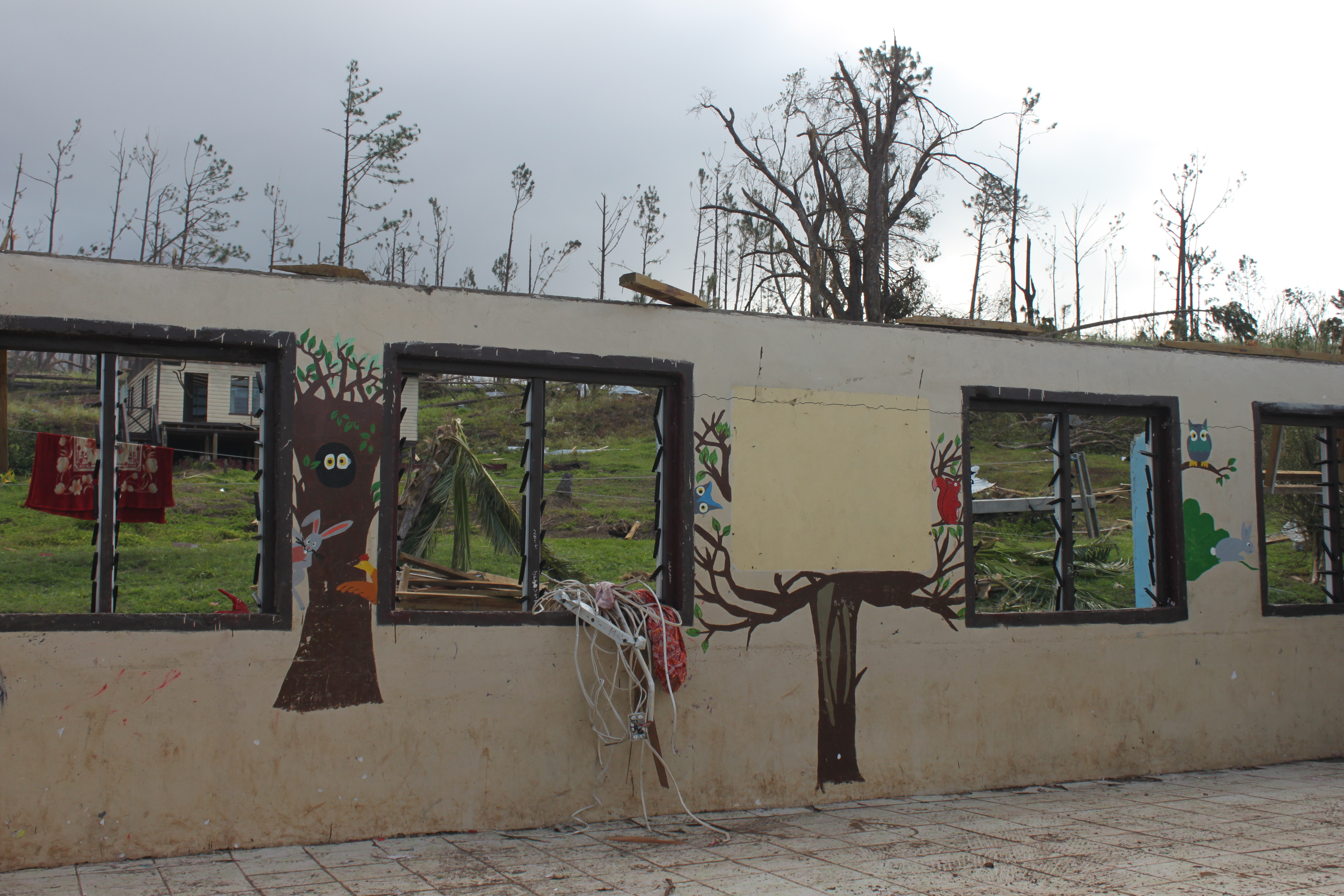 Relief supplies provided by Australian and UNICEF Pacific reaching communities in Tailevu